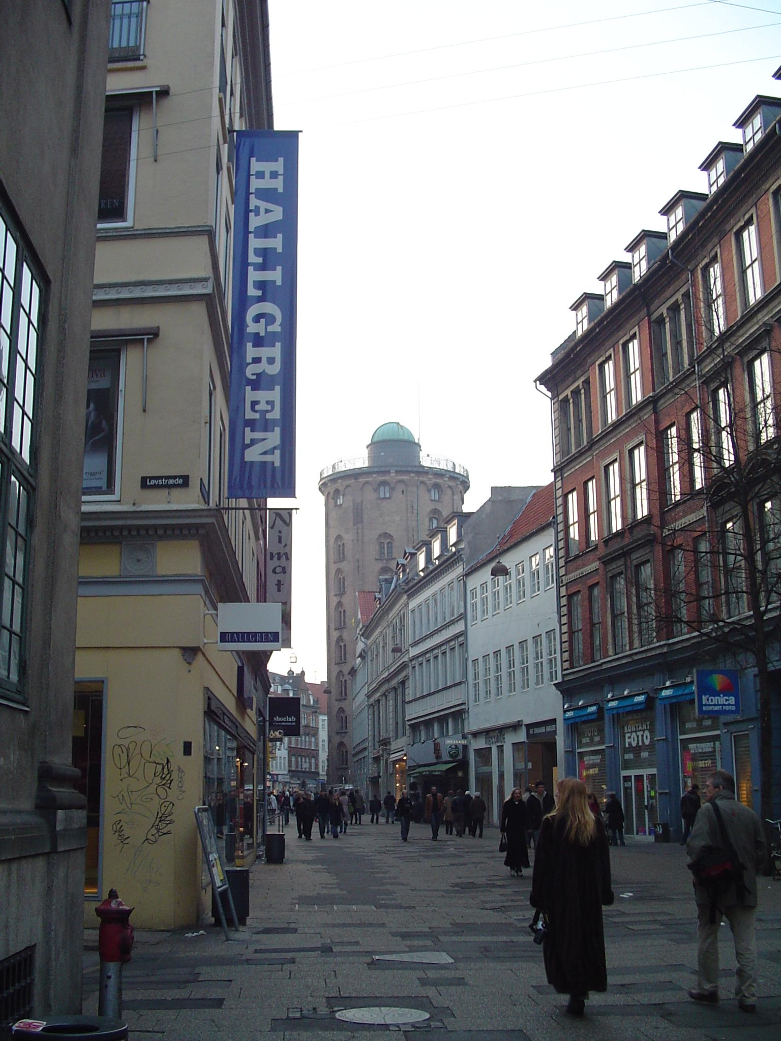 Rundetårn in Copenhagen. Picture by me on 25/3-2005.